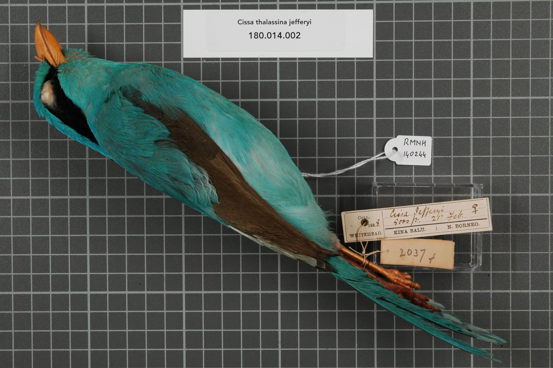 Cissa thalassina jefferyi Sharpe, 1888